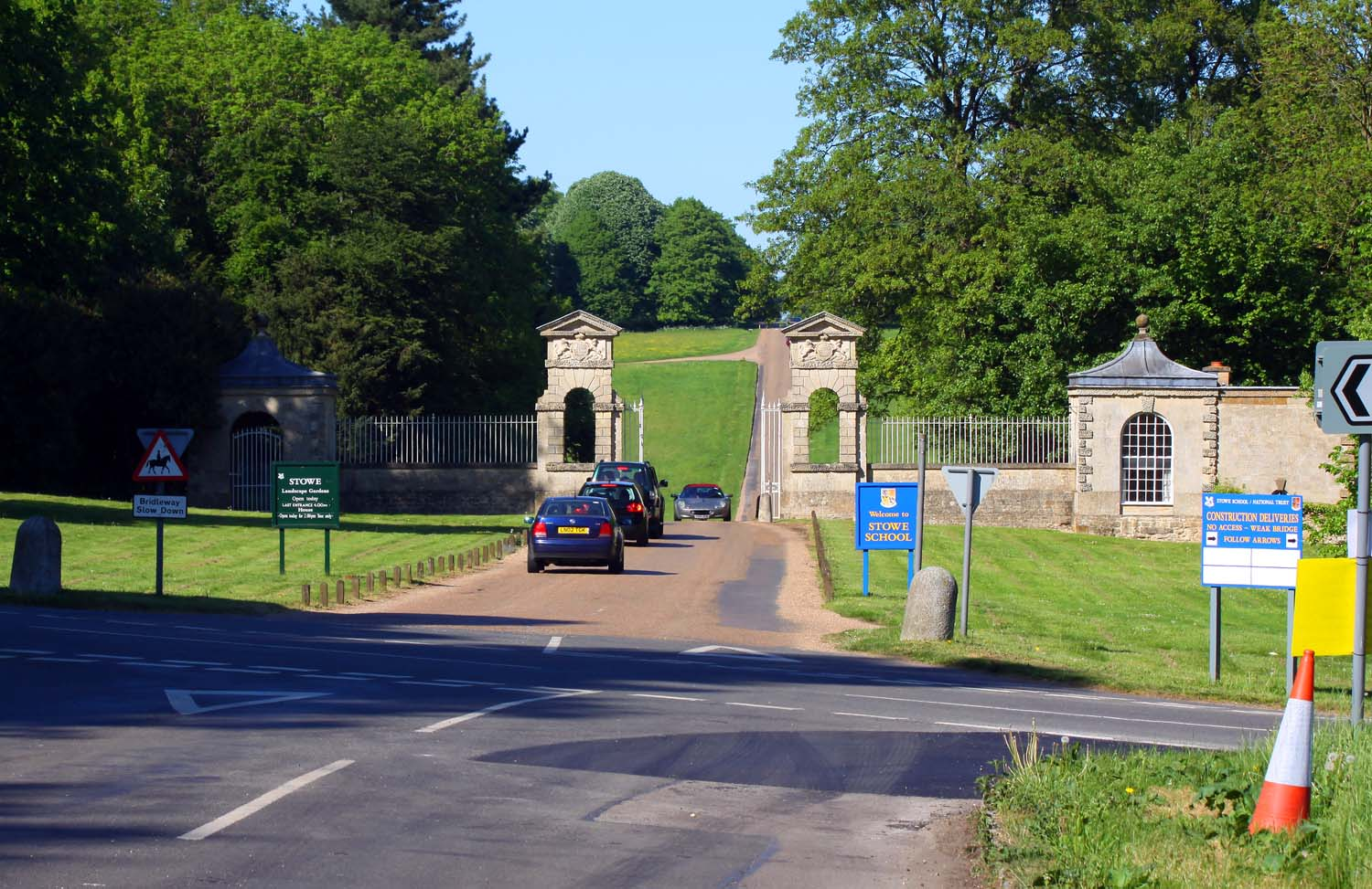 The entrance to Stowe School